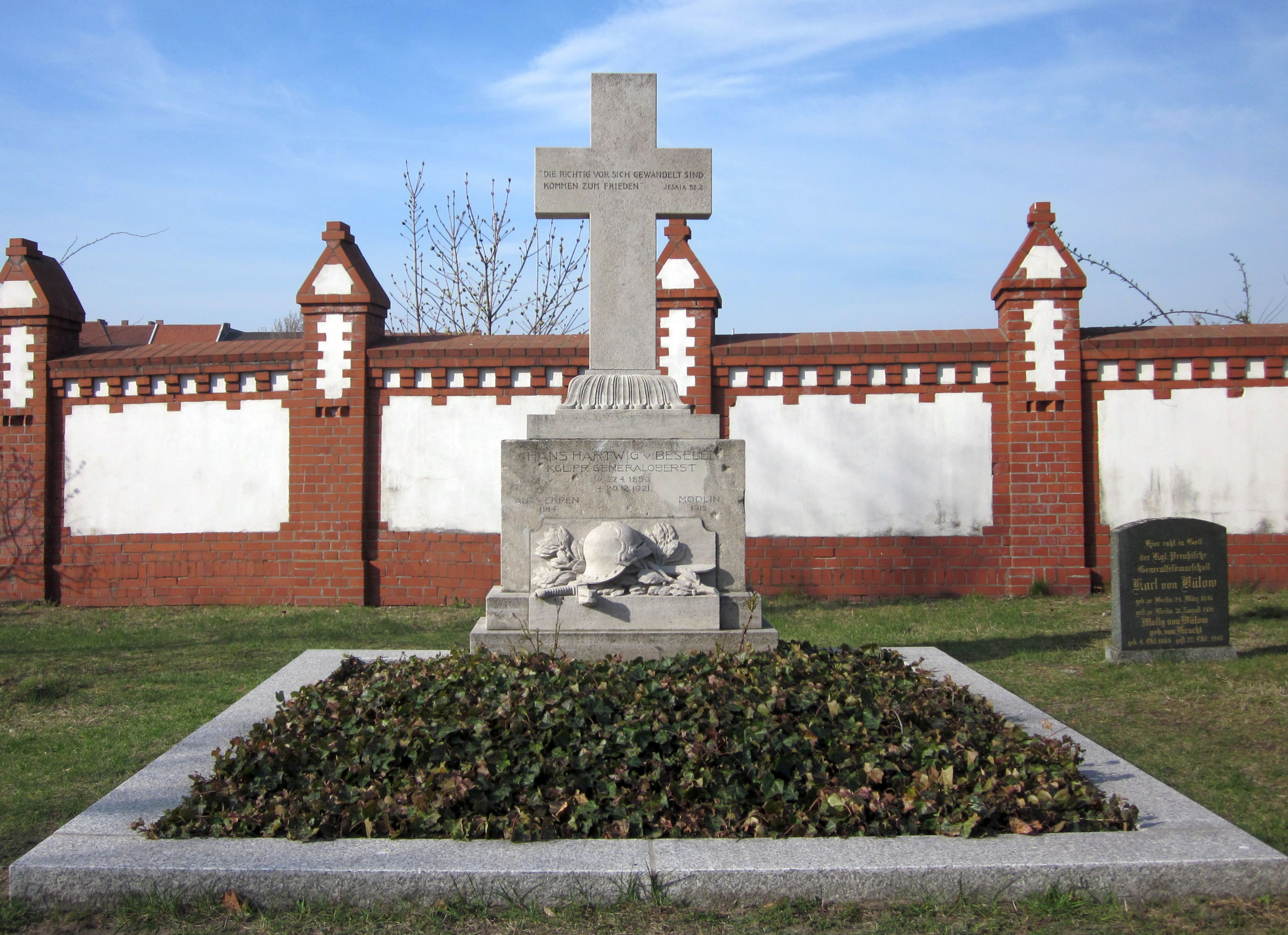 Grave of Hans von Beseler on Invalidenfriedhof in Berlin (reconstructed).